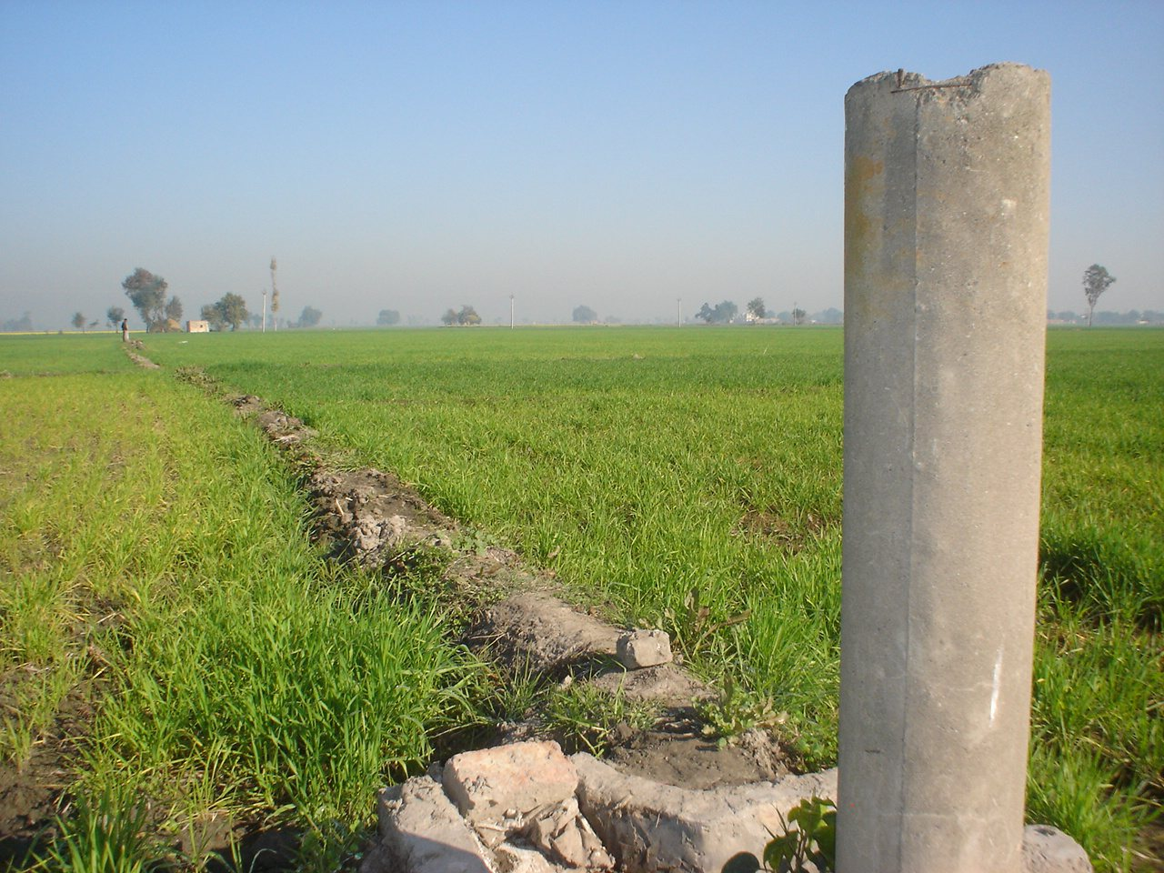 Field with stuff